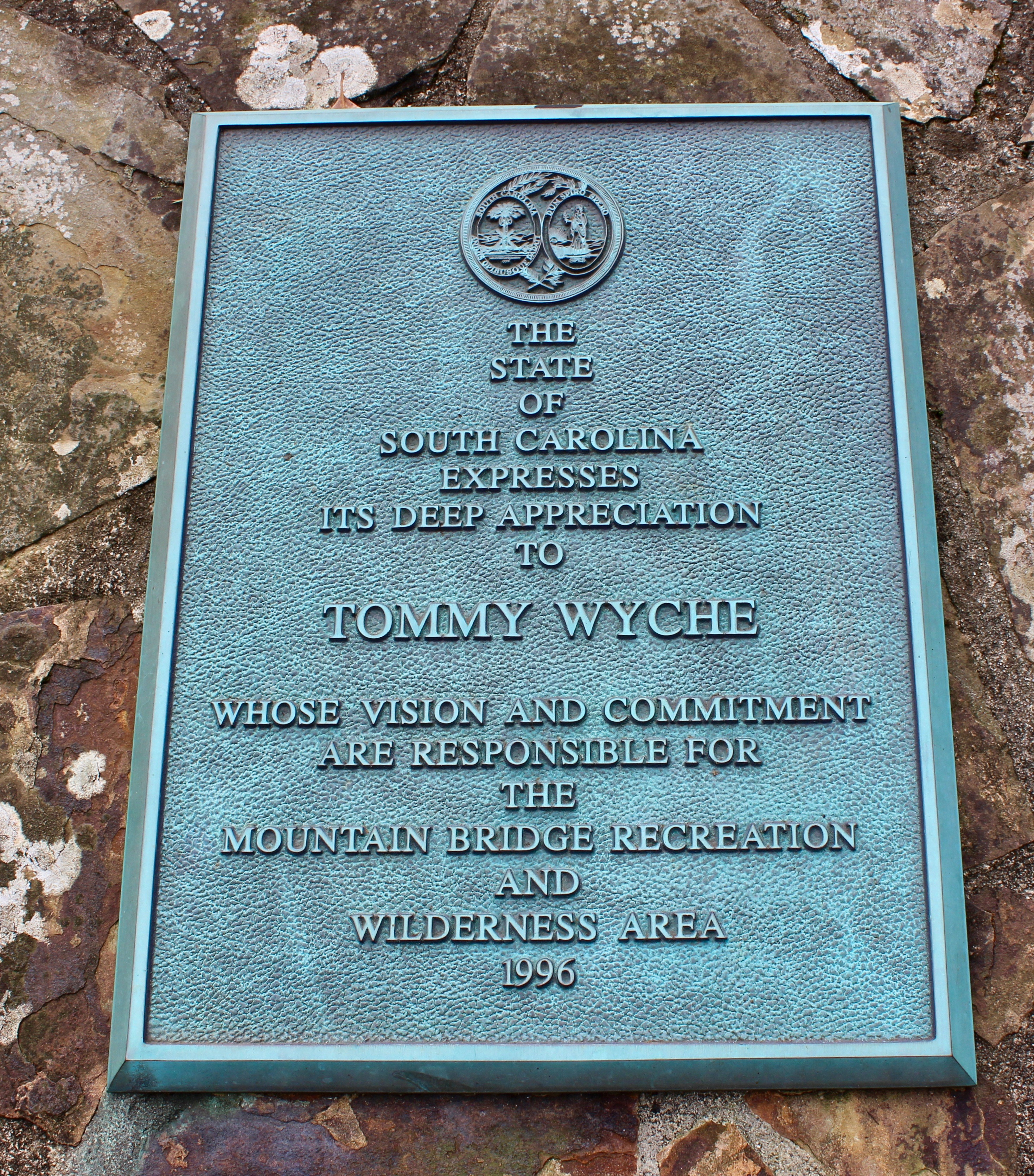 A plaque expressing the thanks of the state of South Carolina for Tommy Wyche's vision in helping to create the Mountain Bridge Recreation and Wilderness Area